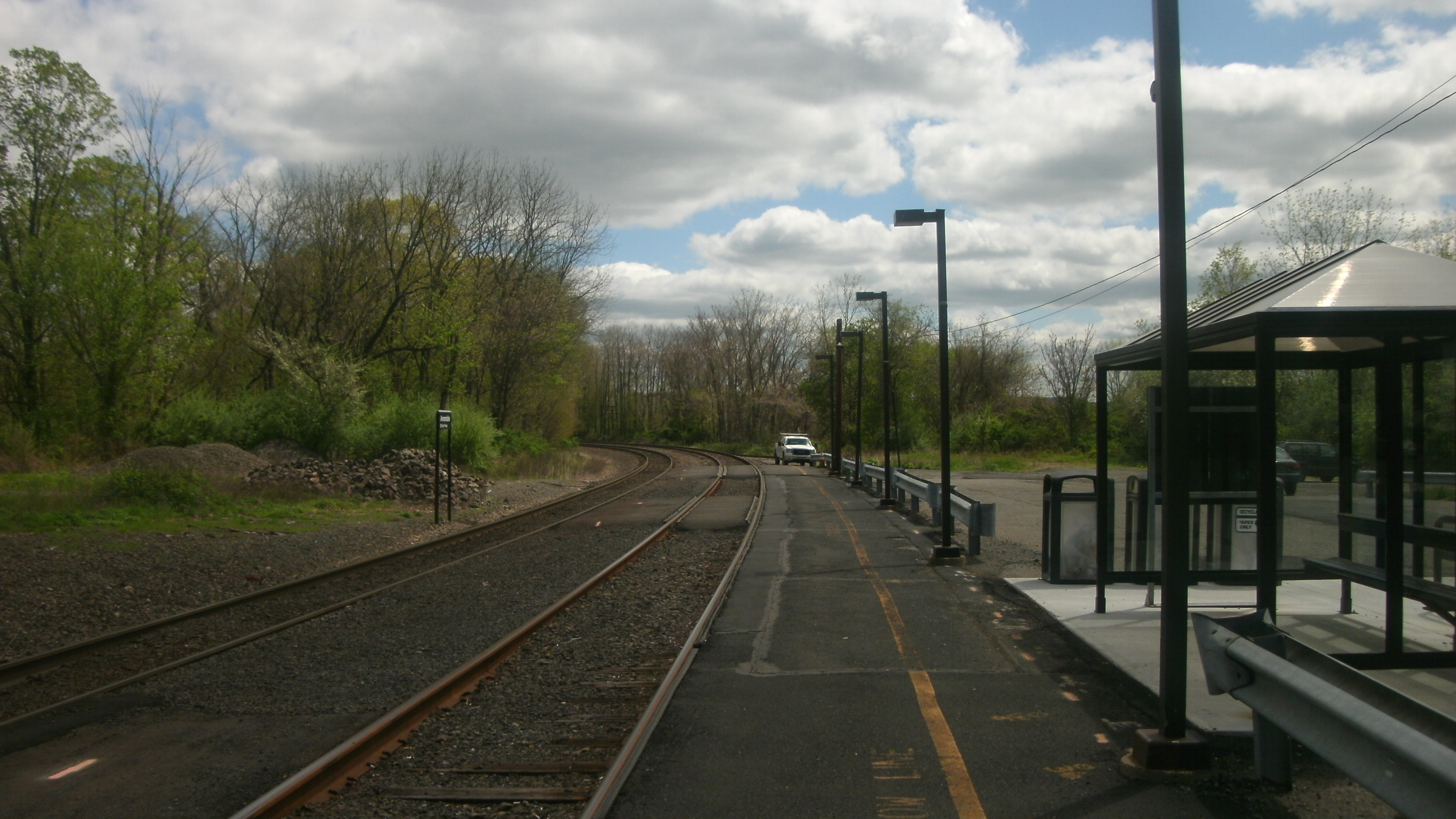 The Annandale New Jersey Transit rail station in Annandale, New Jersey. The station is seen in an April 2011 shot towards Raritan-bound.